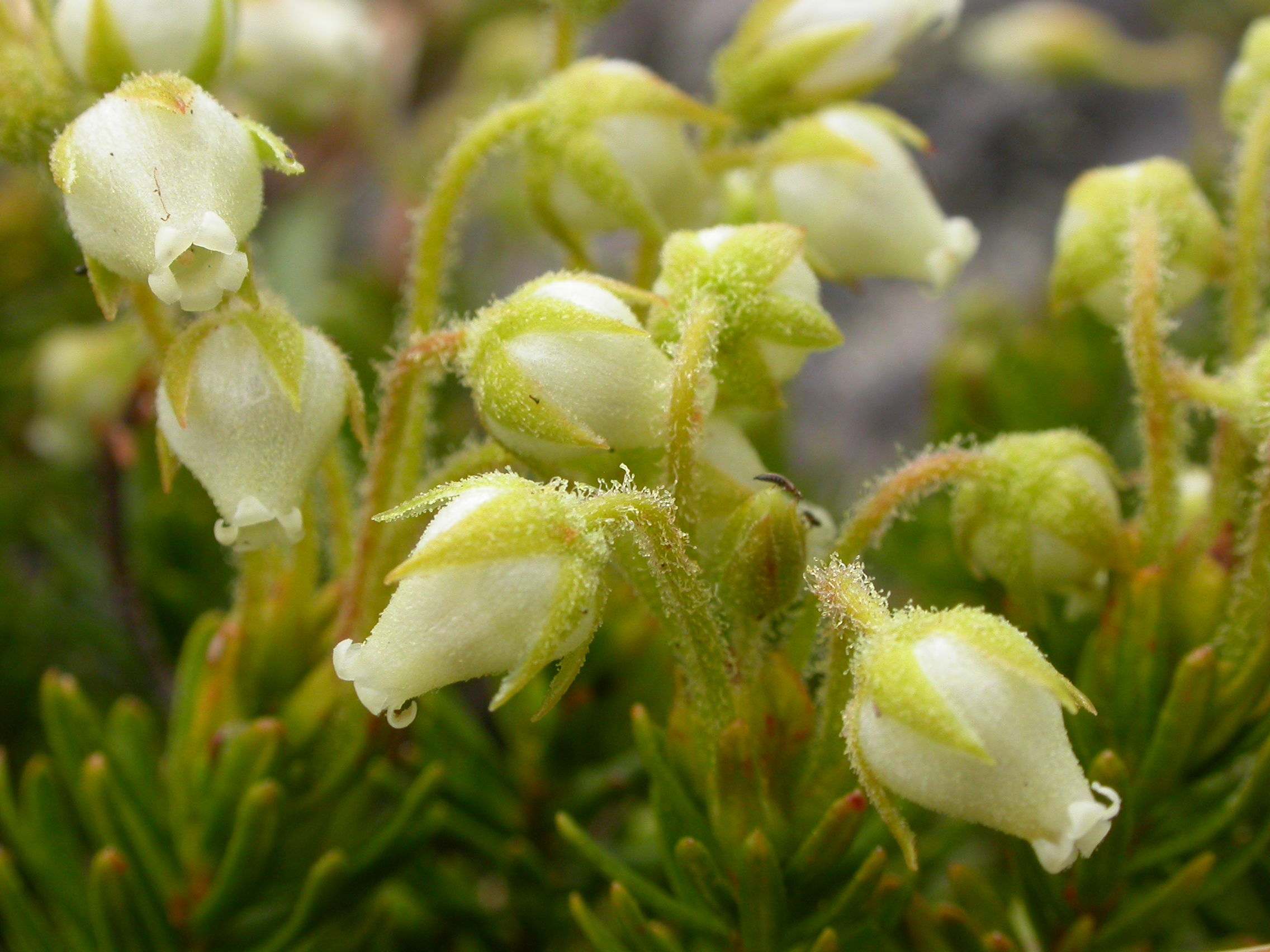 Of the Ericaceae that abound in the meadows on the north bowl of Hyalite Peak, Phyllodoce glanduliflora is marked by its urn-shaped yellowish corolla, glandular pedicels, and alternate leaves.